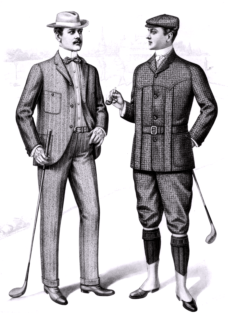 Fashion plate of men's golfing clothes, from the Sartorial Arts Journal, New York, 1901